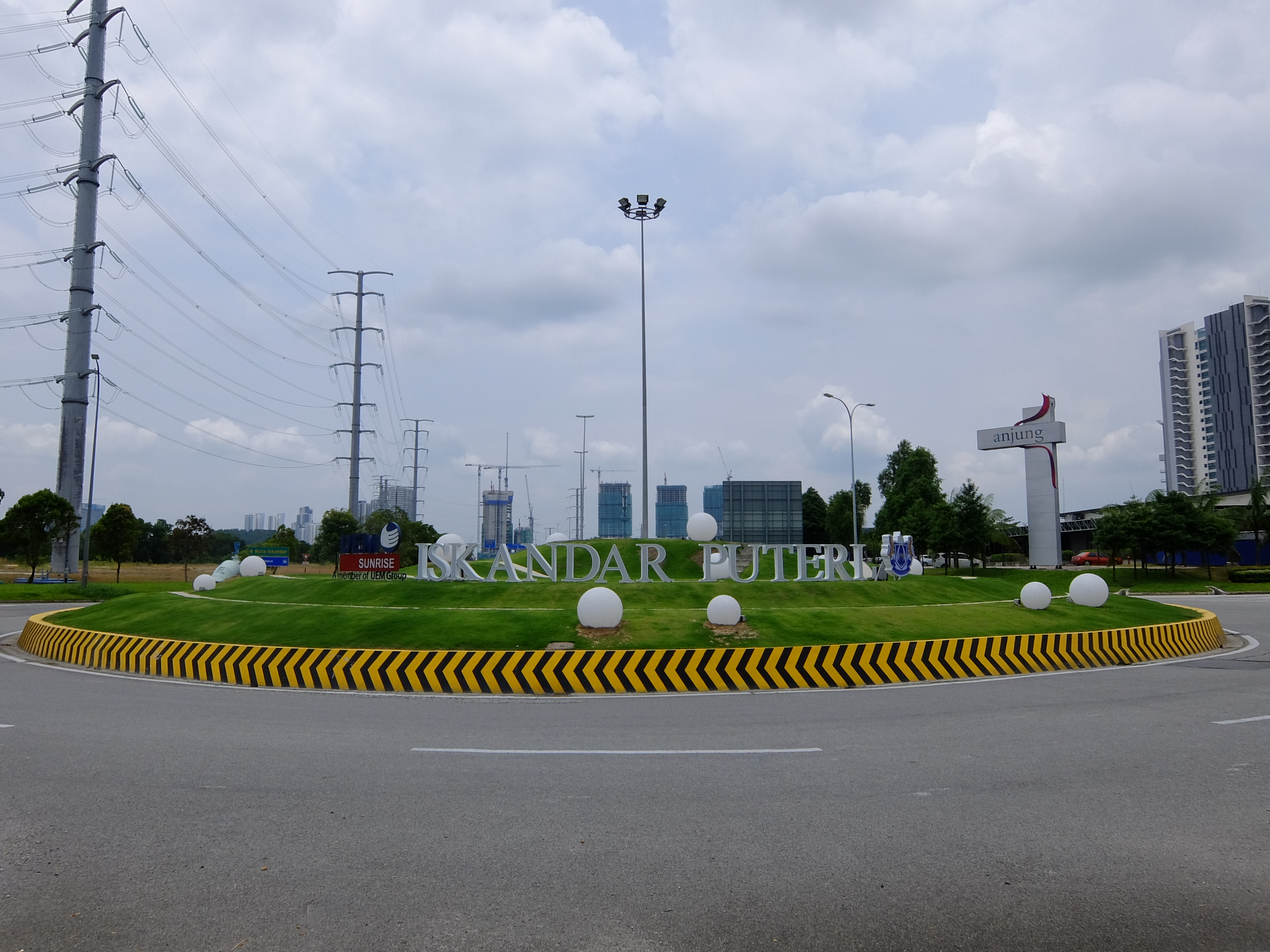 East Ledang, Iskandar Puteri, Johor Bahru, Johor, Malaysia